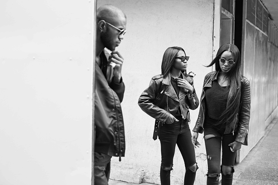 Image of Motown Records musical group James Davis